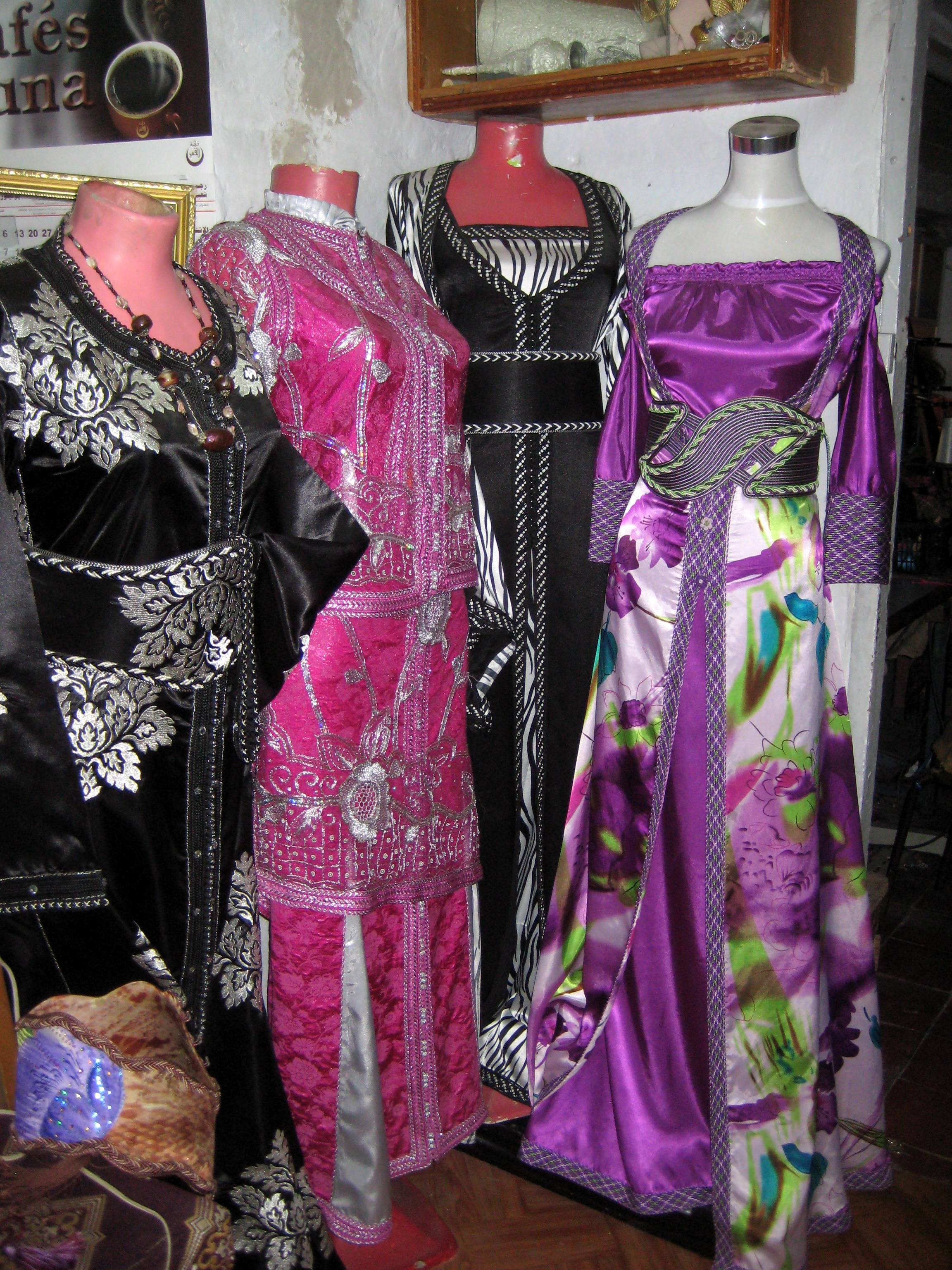 Caftans in the casbah